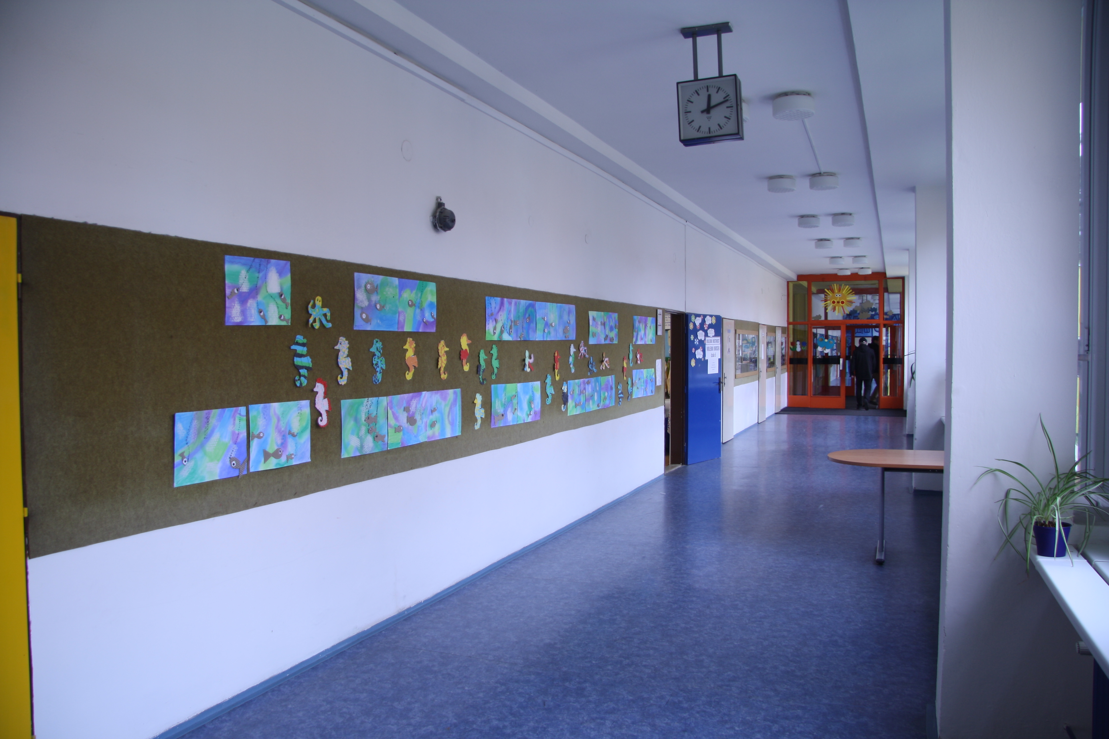 Interior of Elementary School Benešova in Třebíč, Třebíč District.